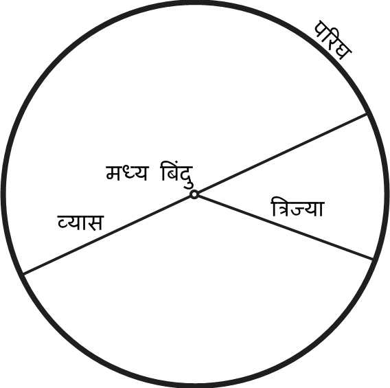 La bildo estas kopiita de en. La originala priskribo estas: Diagram of a circle. This is a vector graphic version of Image:Circle-1.png which was licensed under the GFDL.